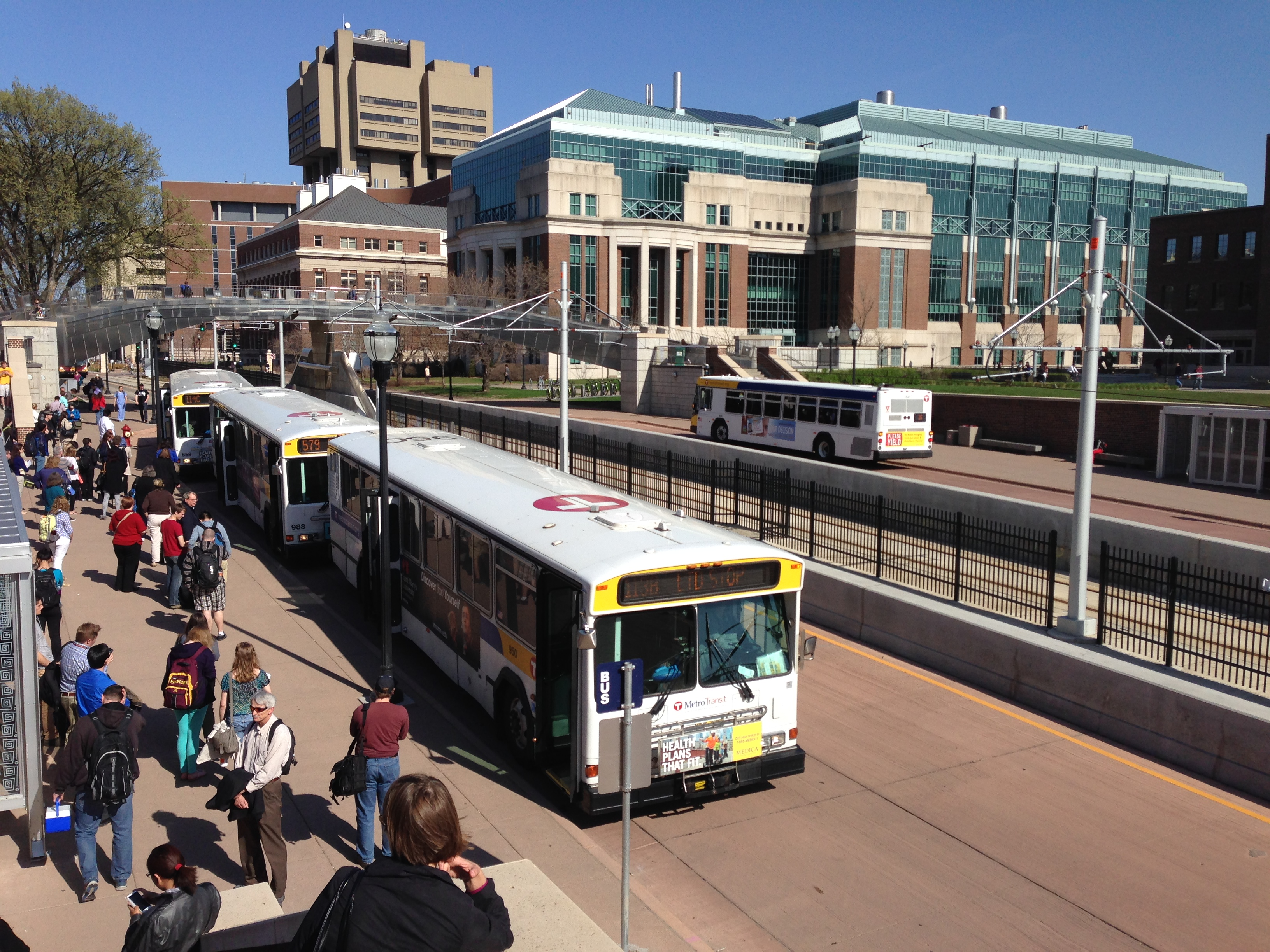 University of Minnesota east bank campus. Glass-covered Nils Hasselmo Hall and tall concrete Moos Health Science Tower in background. Coffman Memorial Union barely visible on right.